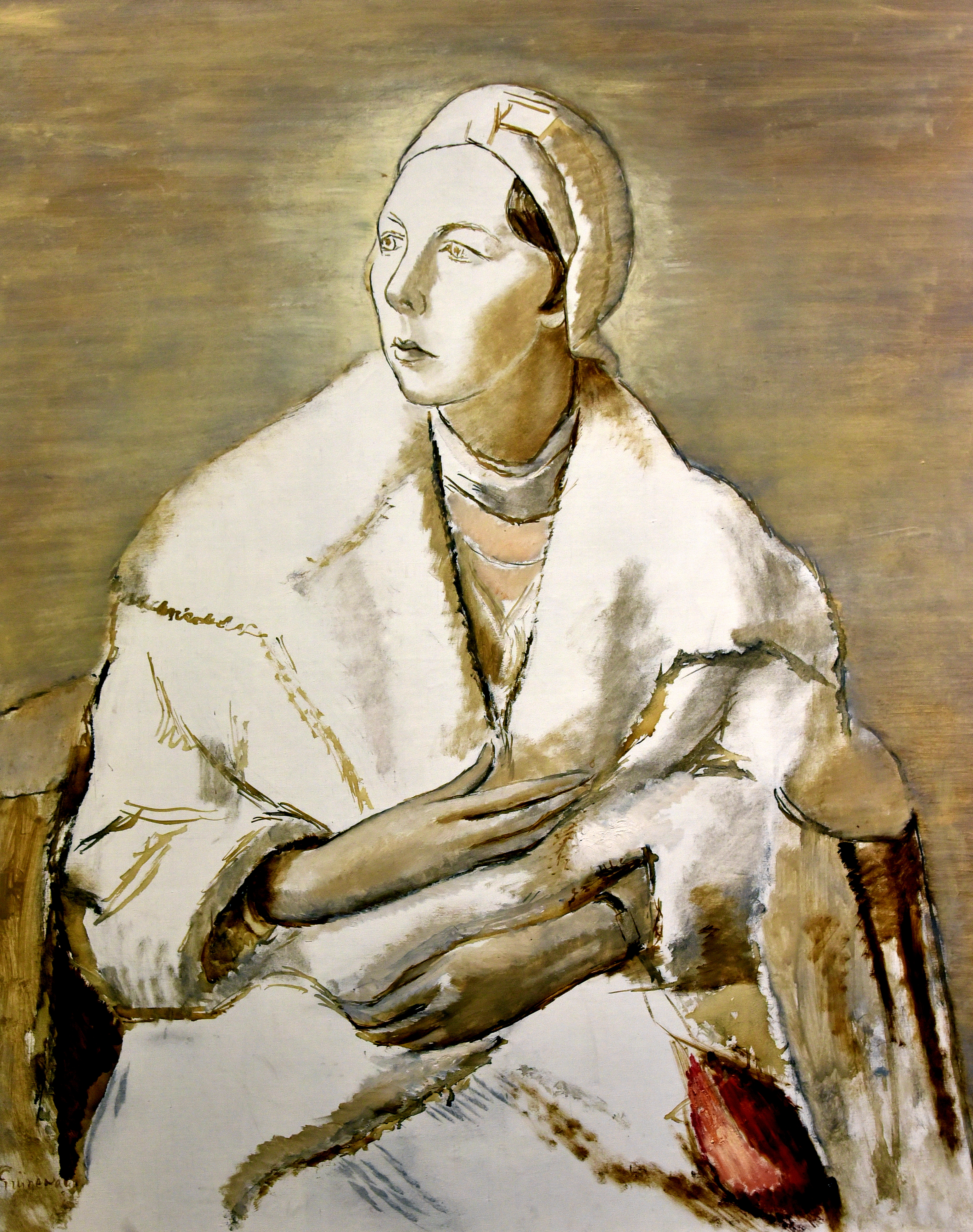 Sigrid Hjertén (1885-1948), artist, by Isaac Grünewald (1889-1946). Nationalmuseum, Stockholm, Sweden. Oil on canvas. NMGrh 4242. Purchase 1999 Axel Hirsch Fund.